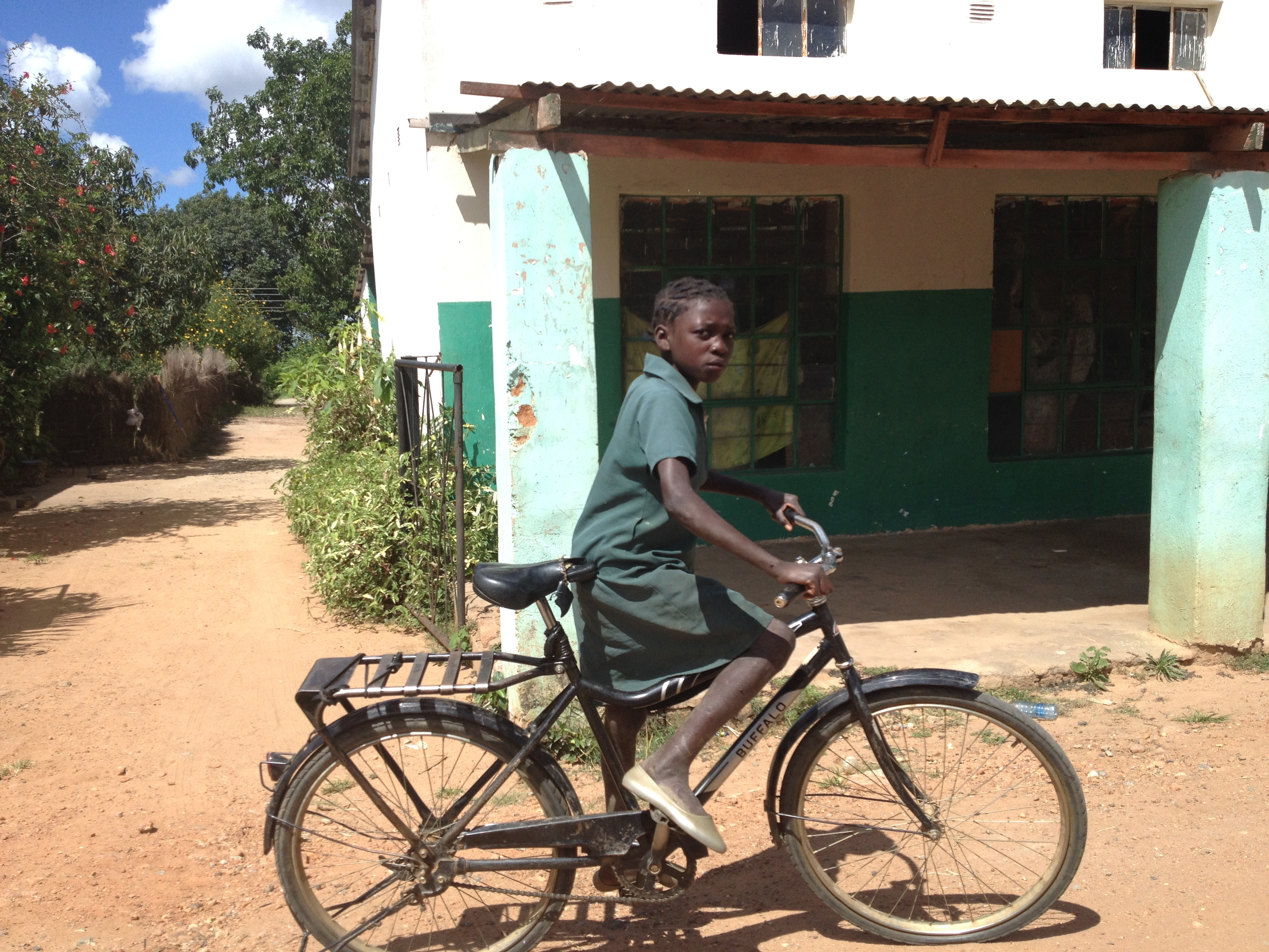 African girl in her school uniform riding her bicycle barefooted This is an image with the theme "Africa on the Move or Transport" from: Zambia